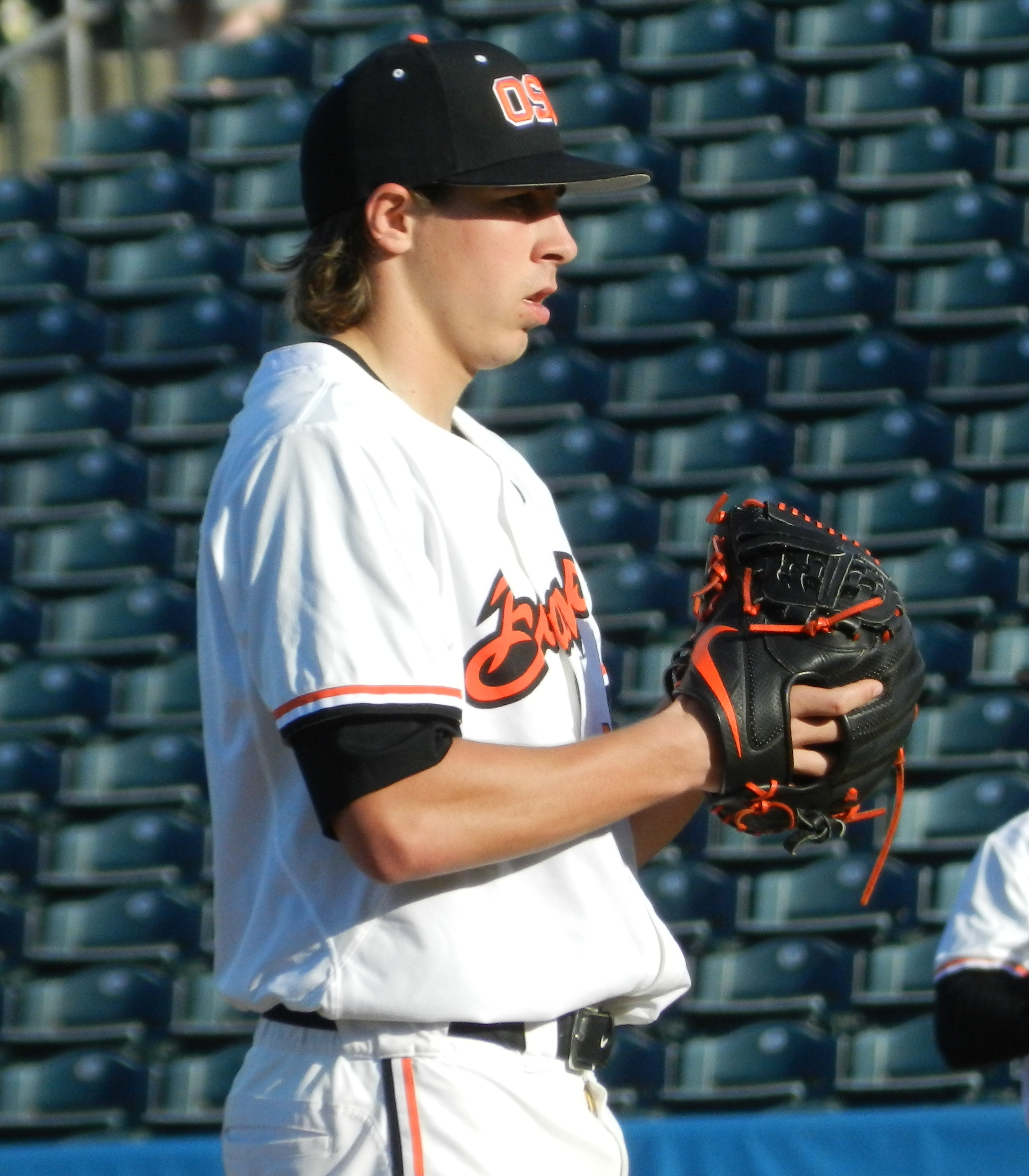 Luke Heimlich on the mound for the Oregon State Beavers during a 2015 game.